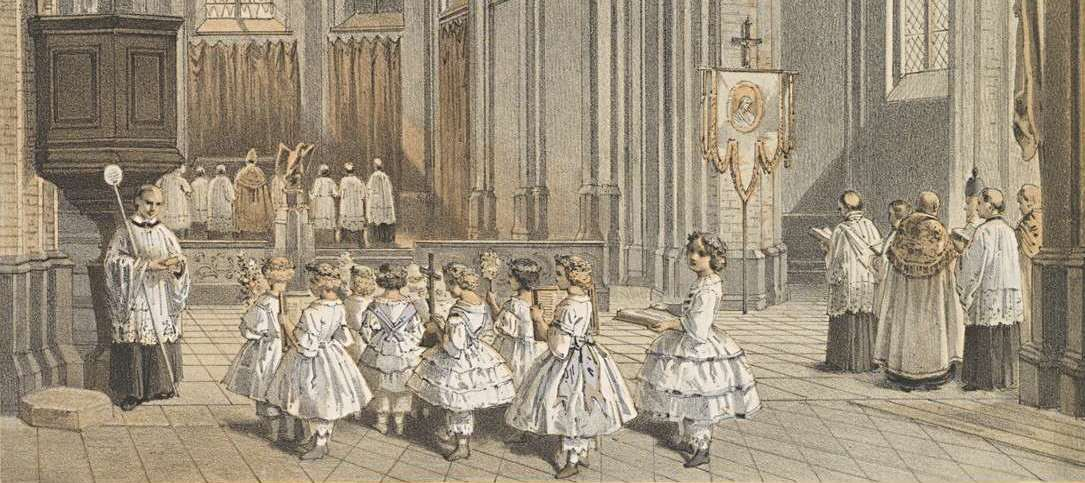 Consecration of the parish church of St. Martin in Wyck-Maastricht, Netherlands, by bishop Paredis on 8 December 1858. Detail of a coloured lithograph by local artist Alexander Schaepkens. Collection Rijksmuseum Amsterdam, RP-P-OB-89.096.